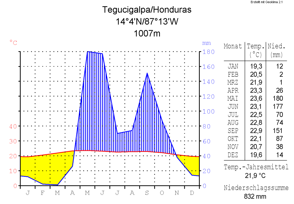 climate chart in the format by Walter and Lieth, metric, °Celsisus and millimeters, made with Geoklima 2.1